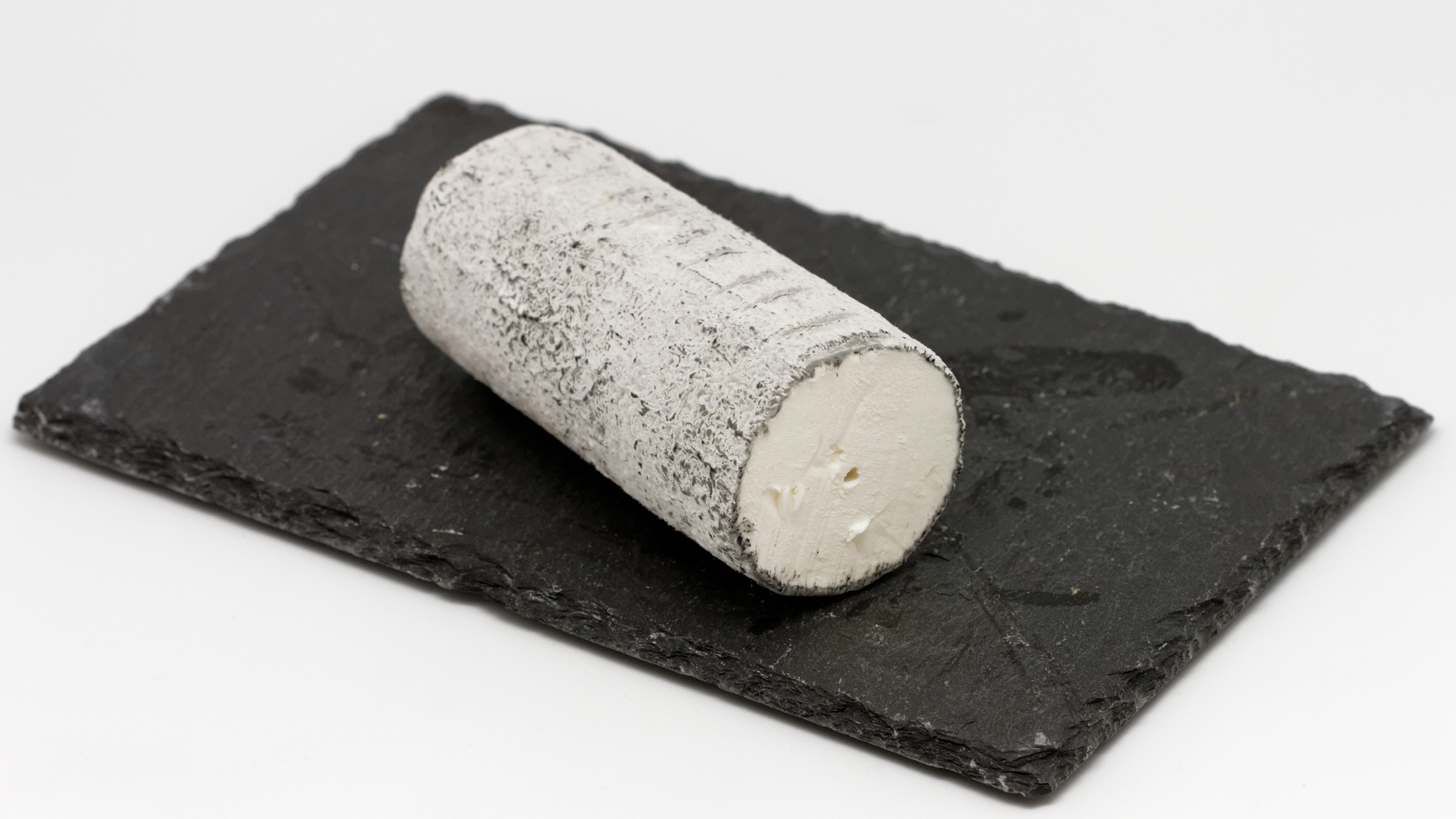 half Sainte-Maure de touraine (goat's milk cheese)